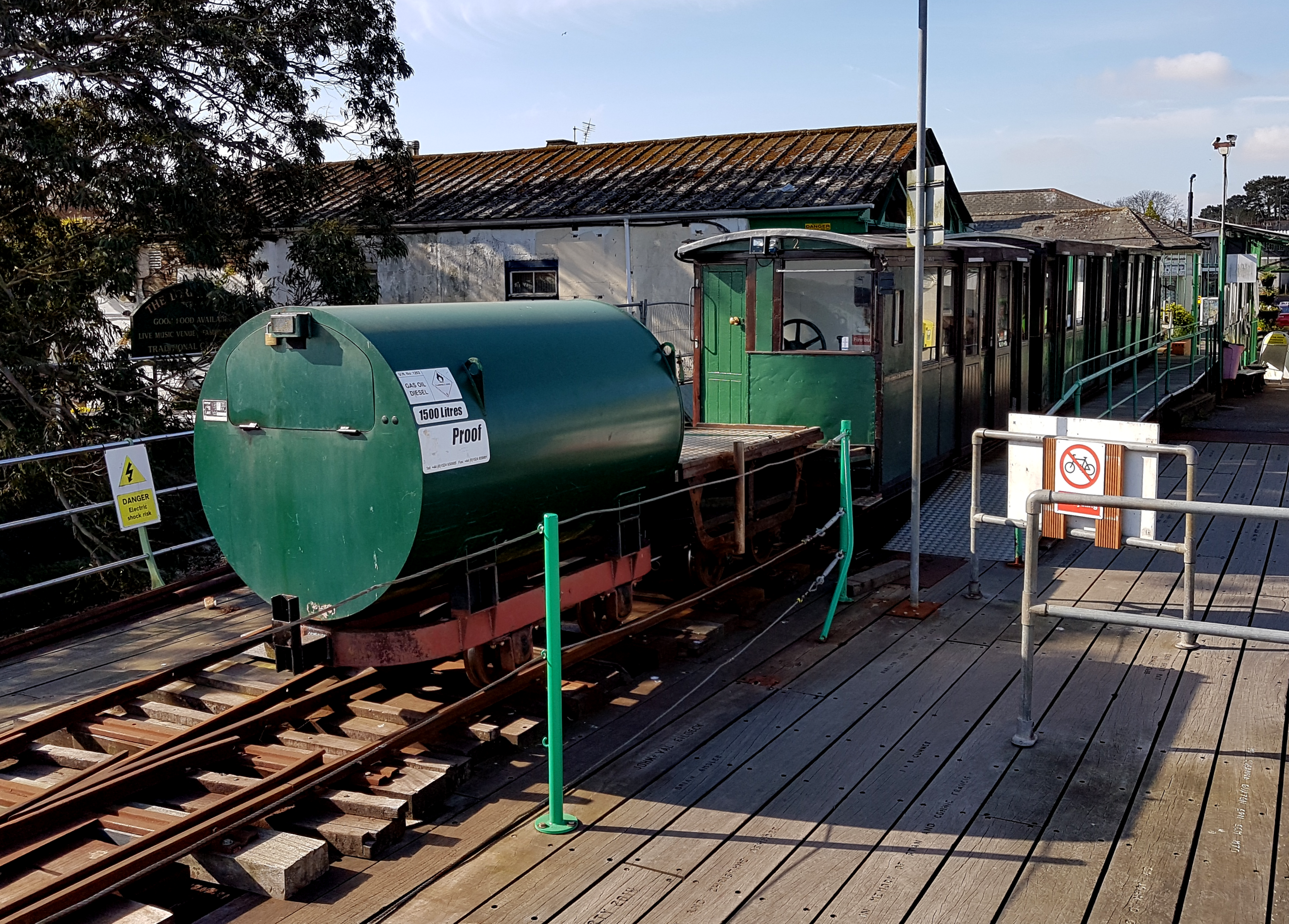 The Hythe Pier Train is possibly the last UK rail service to regularly carry freight and passengers.